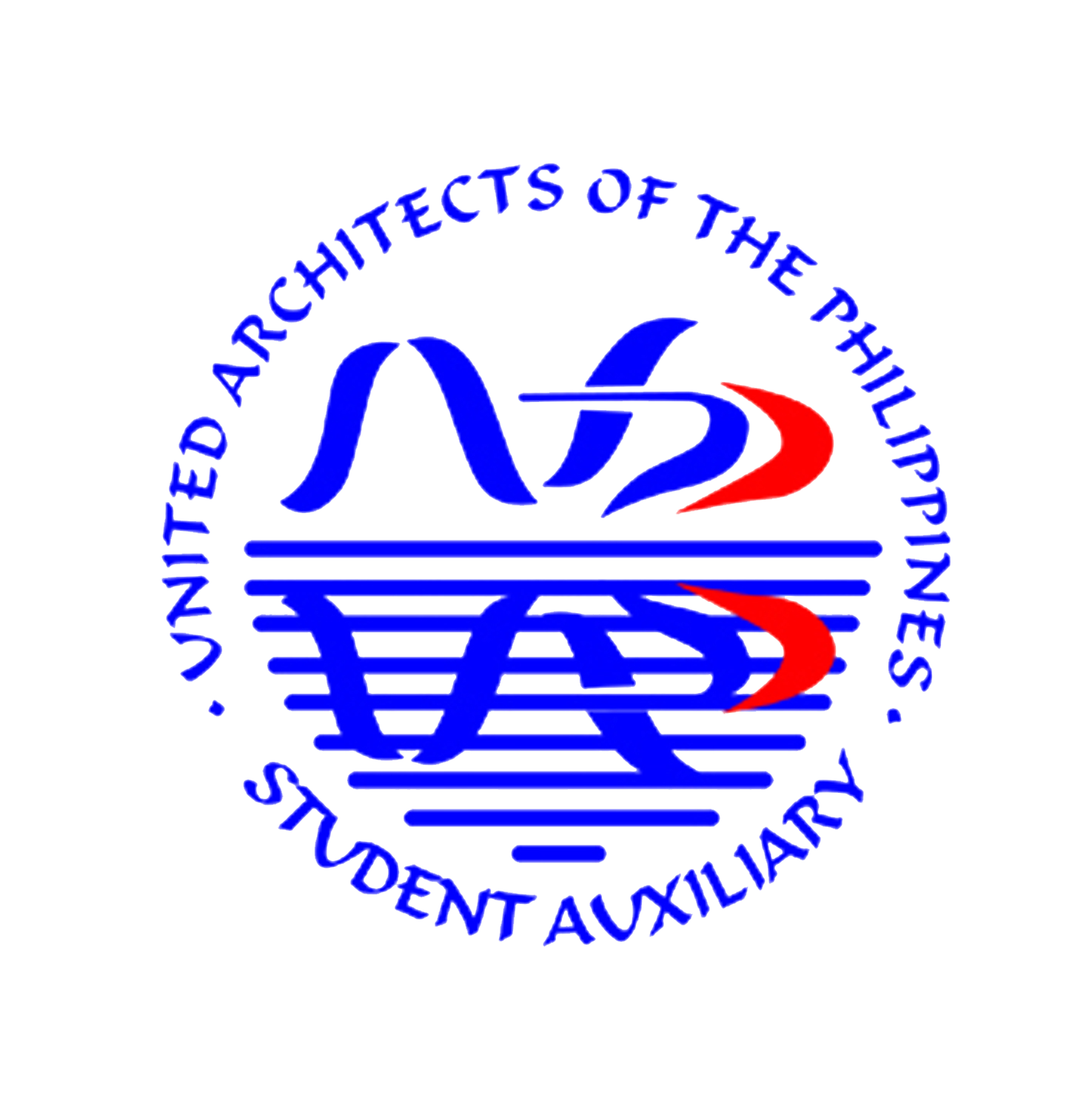 This is a logo for United Architects of the Philippines Student Auxiliary